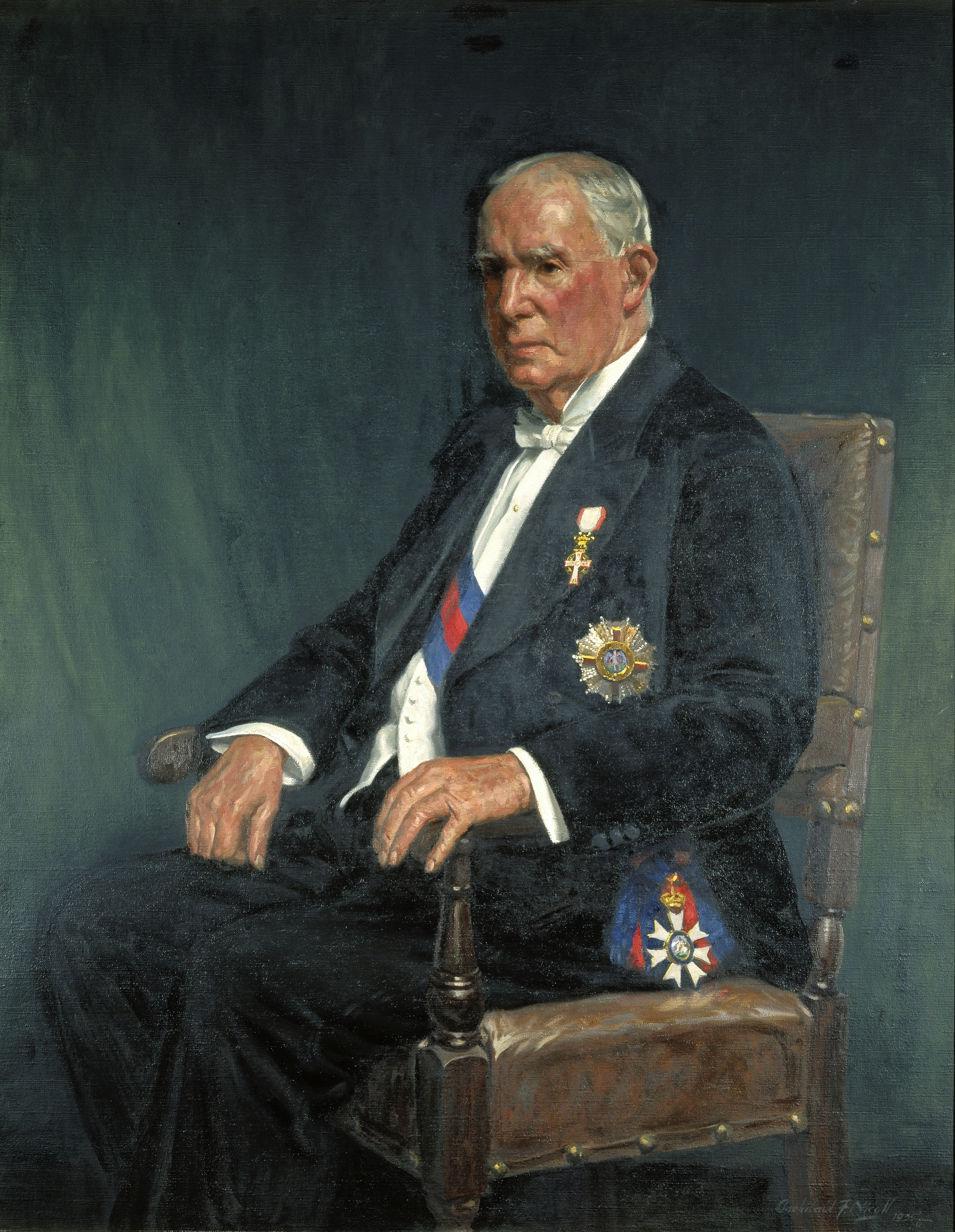 Oil on canvas 1380 x 1090 mm.; Vertical image.; Single art work. Three-quarter length portrait of Sir Francis Henry Dillon Bell, Premier of New Zealand. He is seated and is wearing his insignia of knighthood, etc